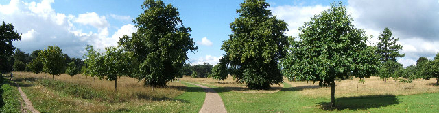 Nonsuch Park, Surrey.